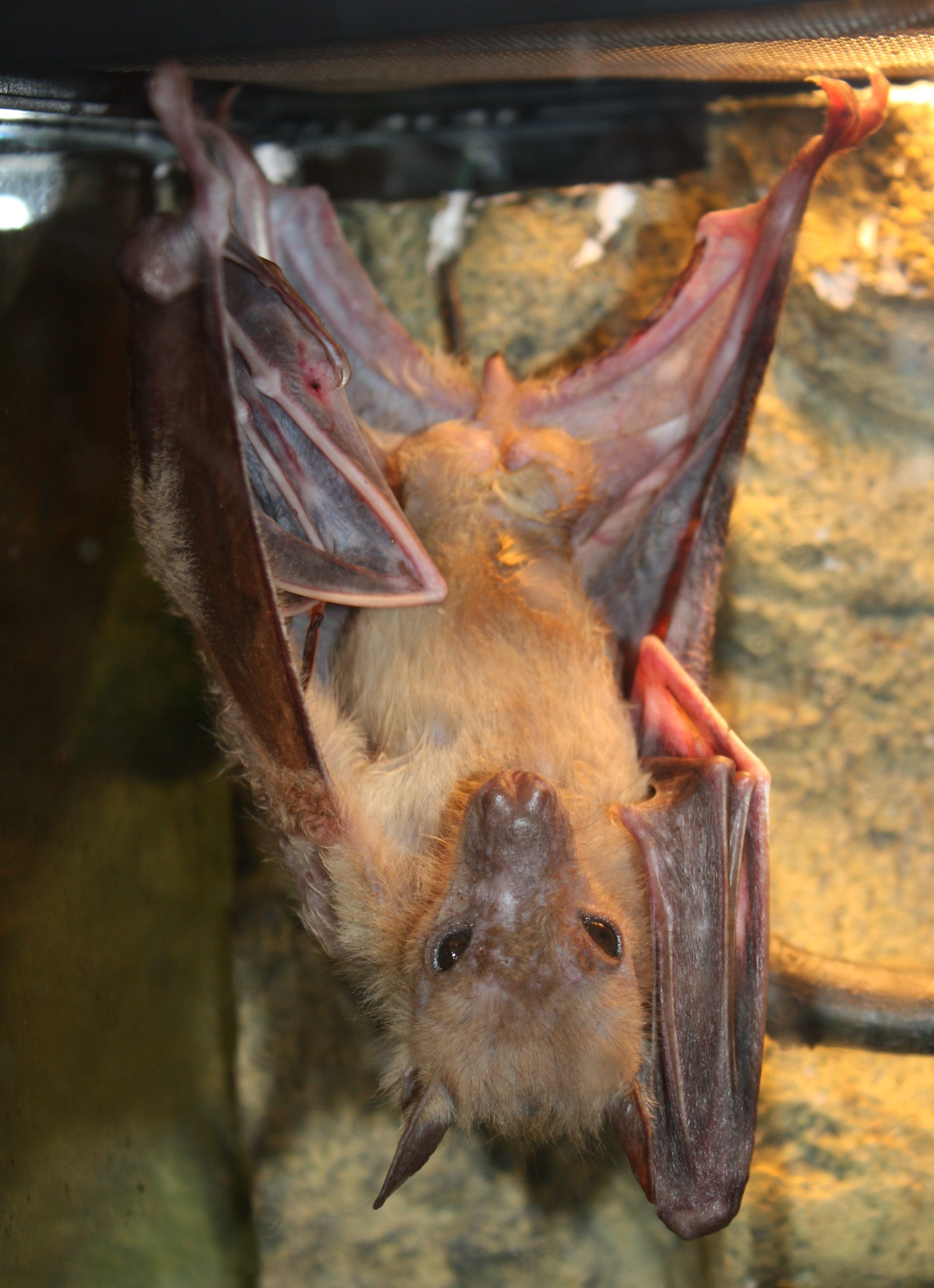 Catched Pteropus giganteus in South Korea